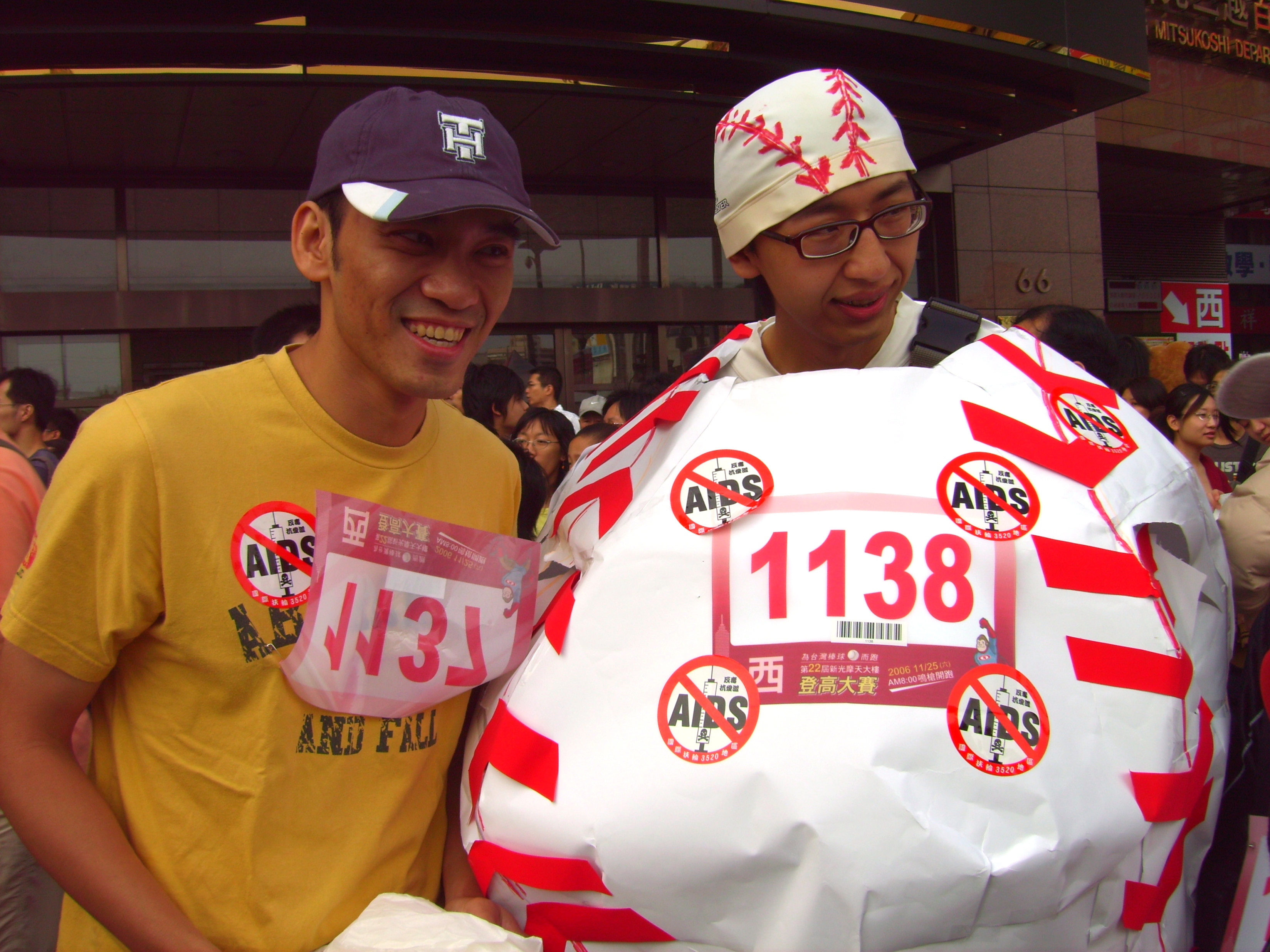 A participant costumed a Baseball-Like Style in the 22nd SKL Run Up.